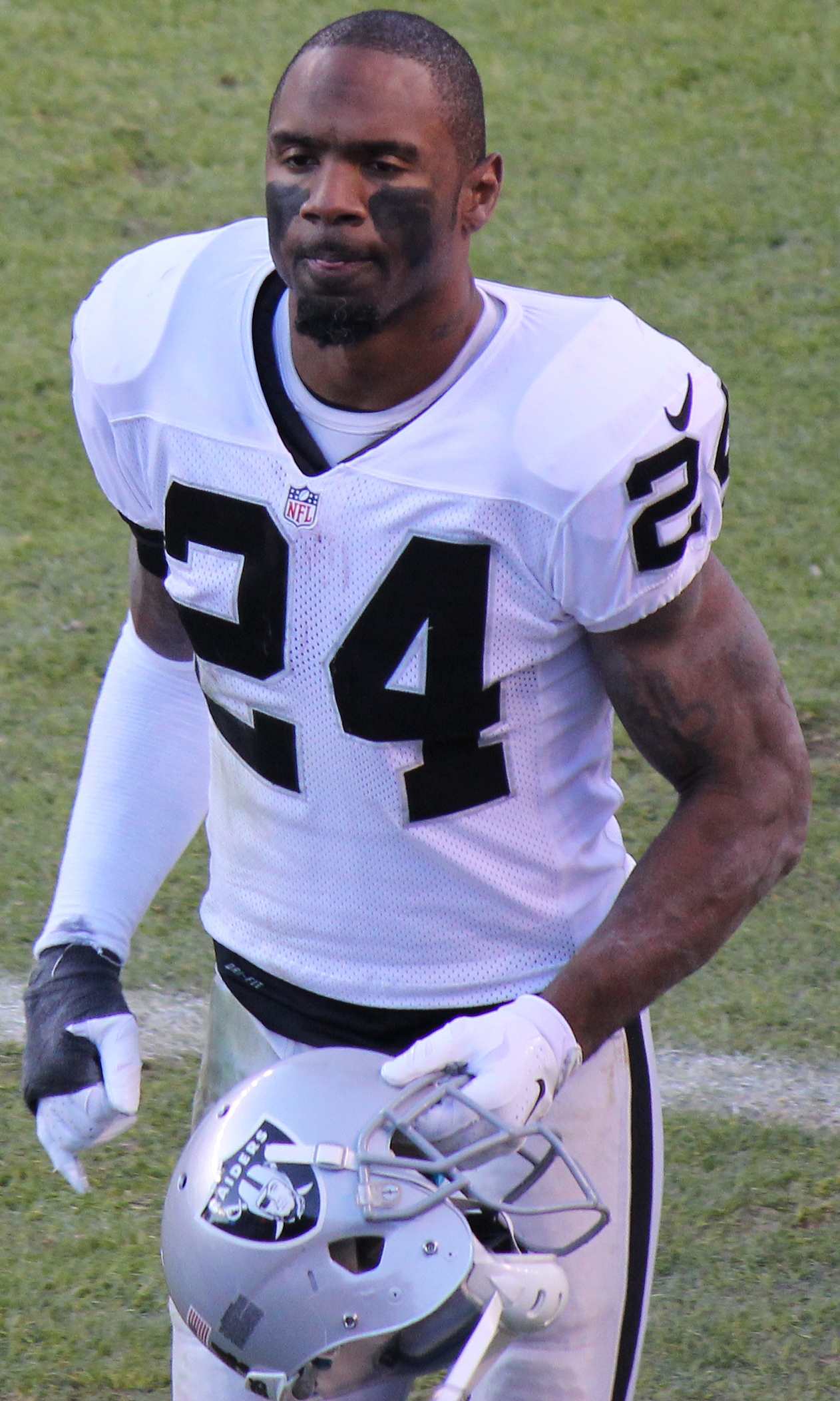 Charles Woodson, a player on the National Football League.